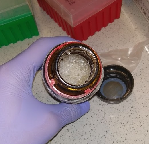 Chloroacetic anhydride in a glass container, Faculty of Chemistry, University of Wrocław